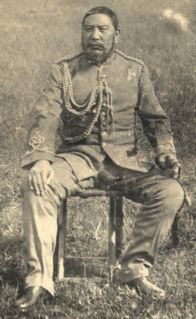 Kalon Lama Jampa Tendar, Governer General of Kham